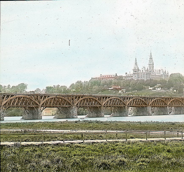 Lanternslide of the Aqueduct Bridge over the Potomac River in Washington, D.C., in the United States, circa 1900. The view is from the Virginia shoreline, looking northeast. The spires of buildings at Georgetown University can be seen in the background.